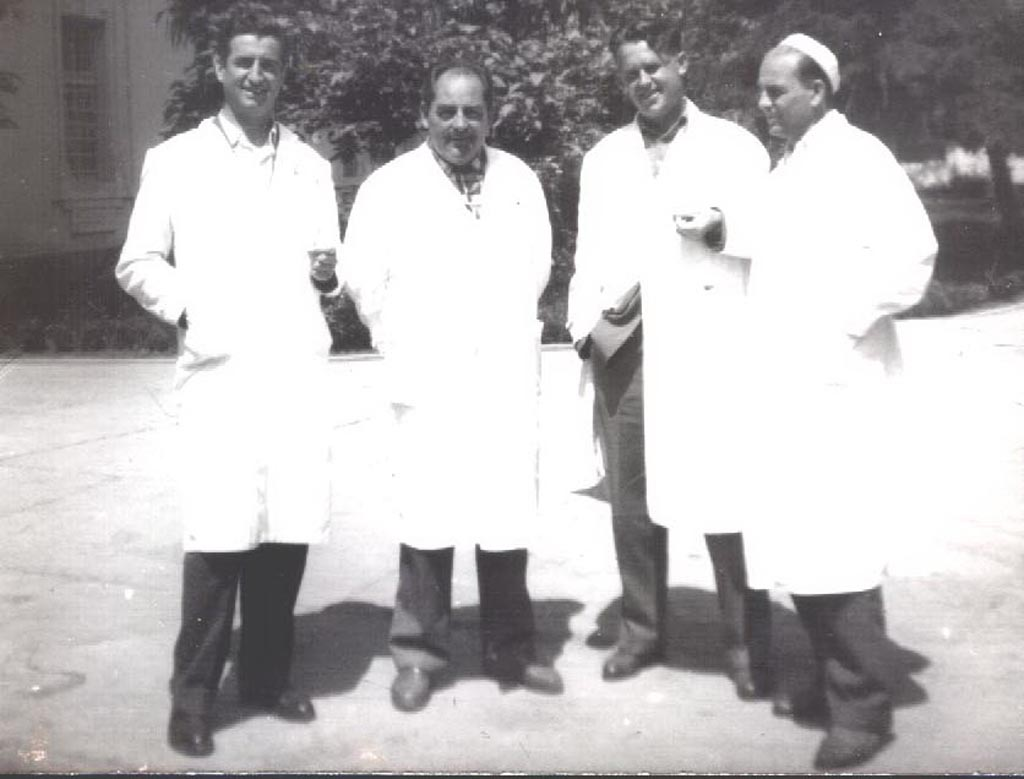 ( dr Marjanović prvi sa leve strane)